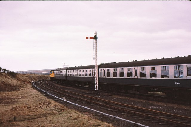 Thurso portion at Georgemas Junction A locomotive backs onto the Thurso coaches of the Inverness-Thurso/Wick morning train which have been propelled backwards around the sharp curve off the main line.